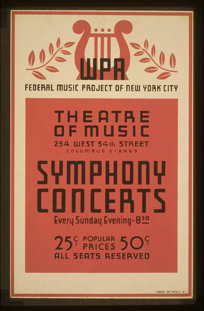 WPA Federal Music Project of New York City Theatre of Music 1936-1941